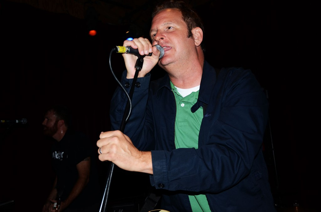 Parry Gripp performing with Nerf Herder at Bootleg Bar in Los Angeles on September 1, 2012